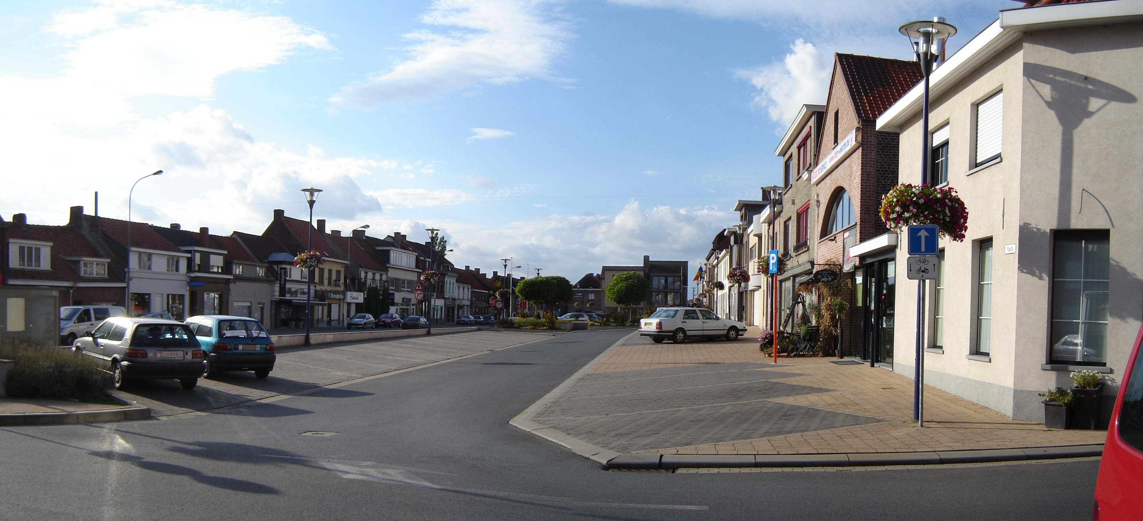 "Plaats" (market square) in Rekkem, Menen, West-Flanders, Belgium This panoramic image was created with Autostitch (stitched images may differ from reality).